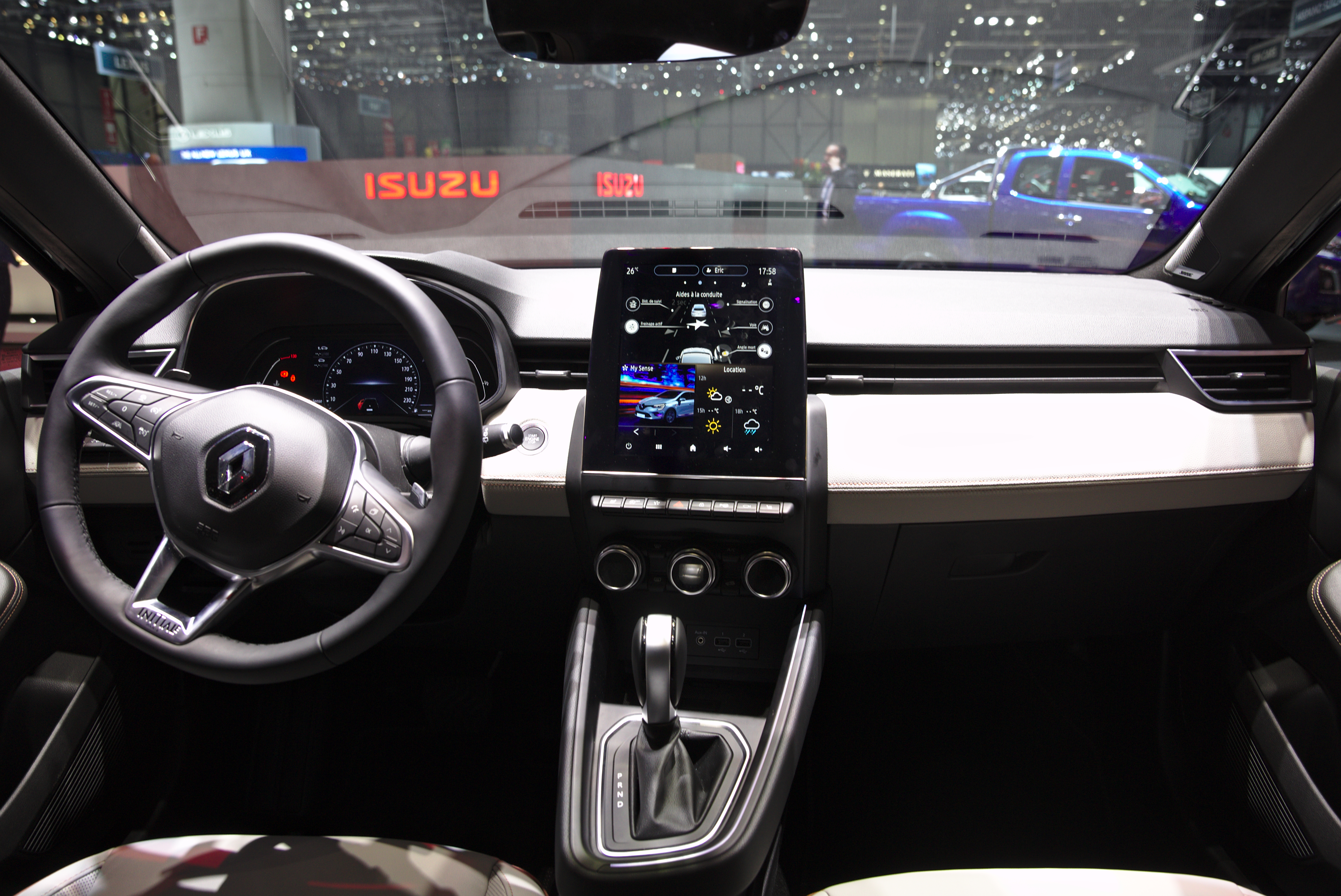 Renault Clio R.S. Line at Geneva Motor Show 2019